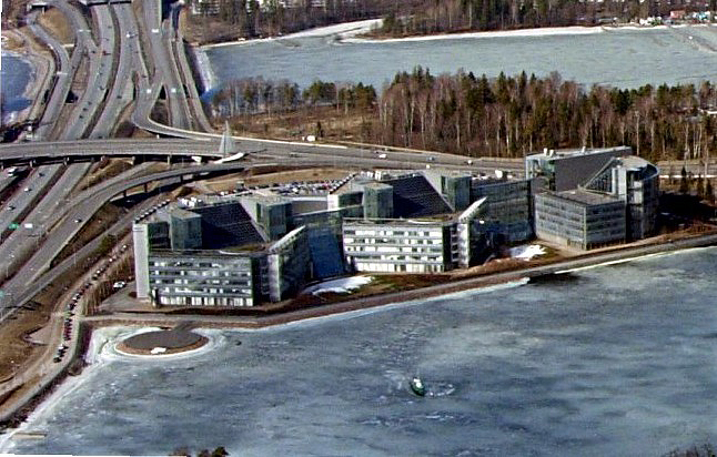 The former headquarters of Nokia Corporation in Keilaniemi, Espoo, Finland. As of the year 2014 the building belongs to Microsoft Corporation.